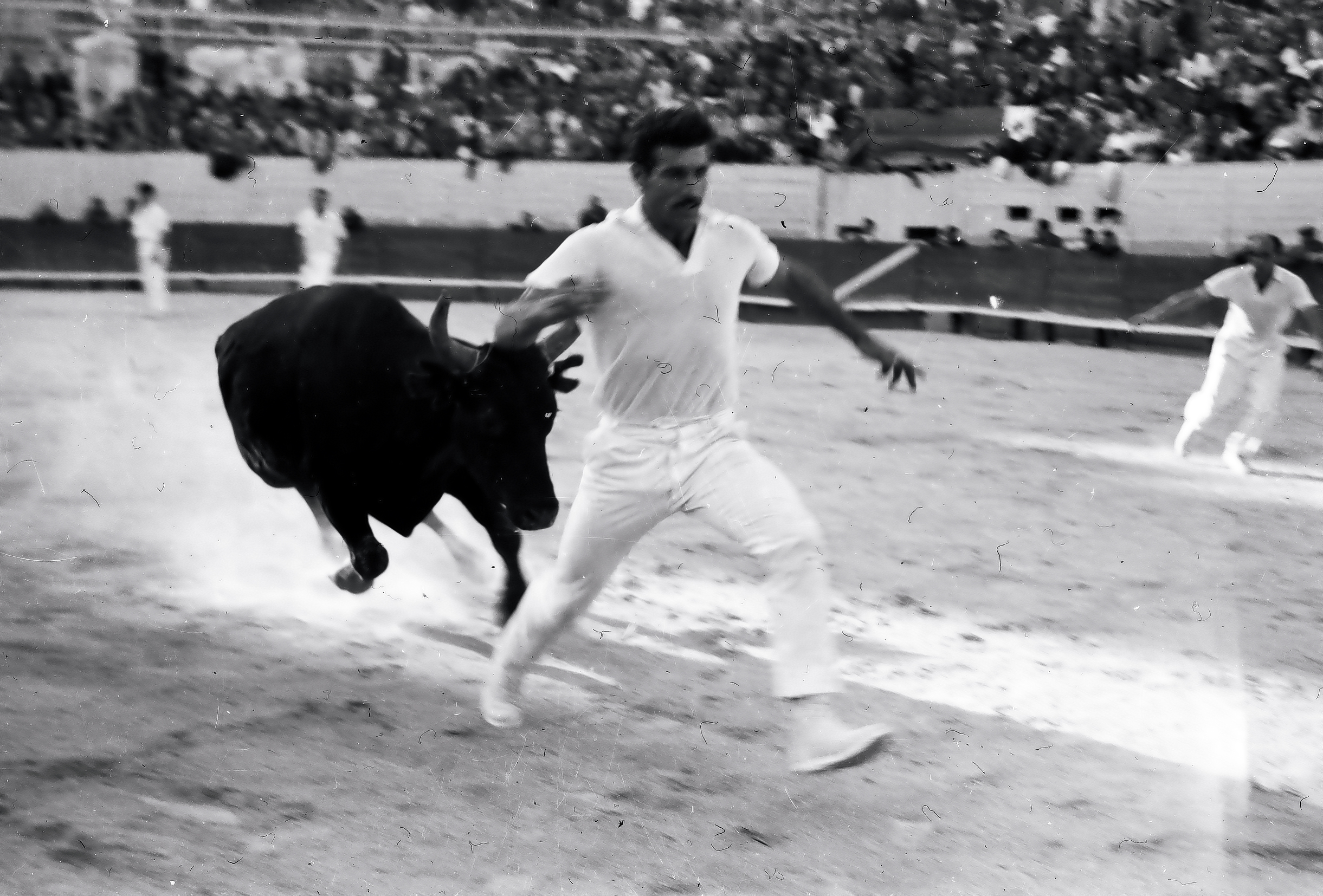 Bulls release in Arles (Bouches-du-Rhône, France).